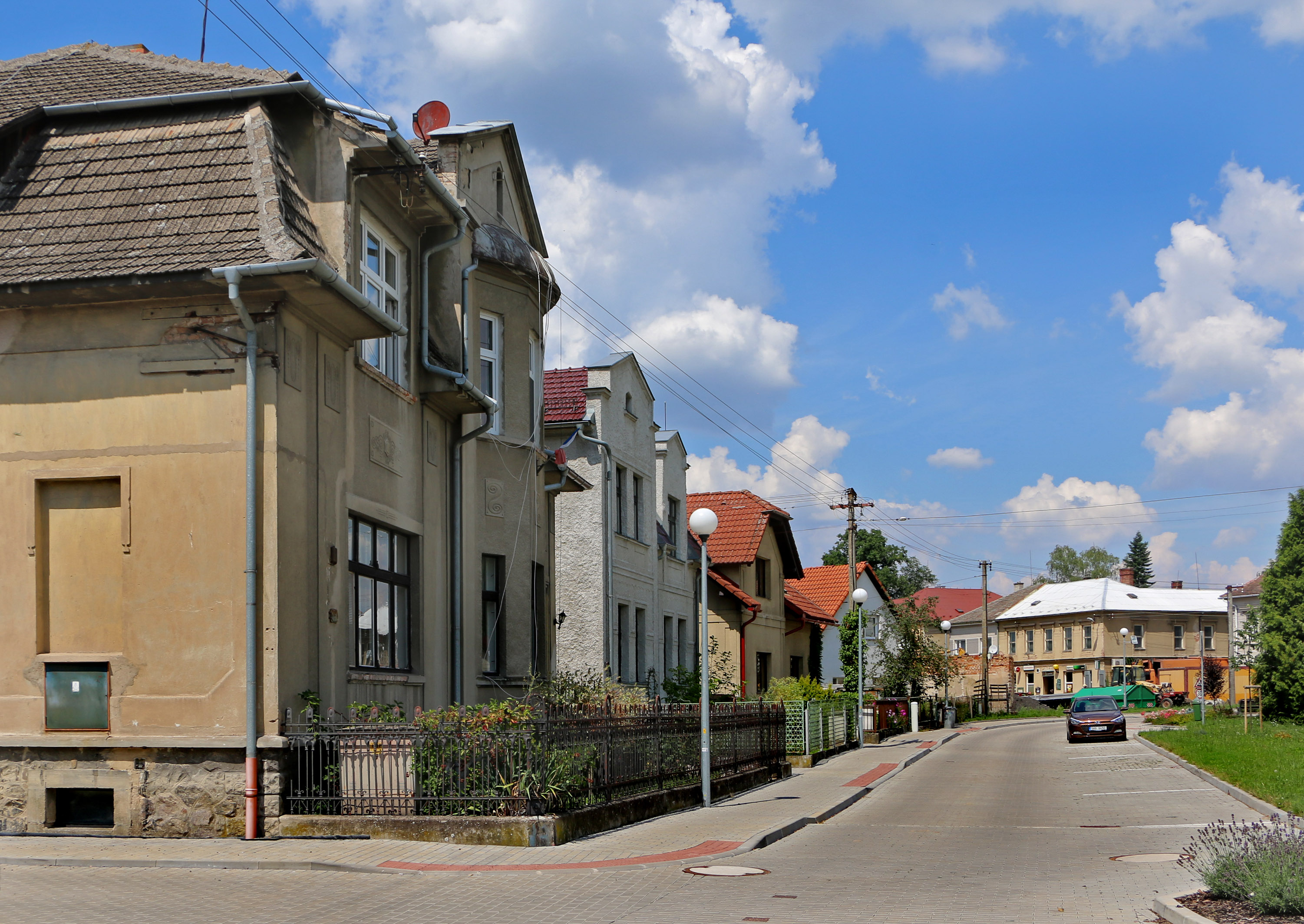 Na Návsi street in Albrechtice nad Orlicí, Czech Republic.